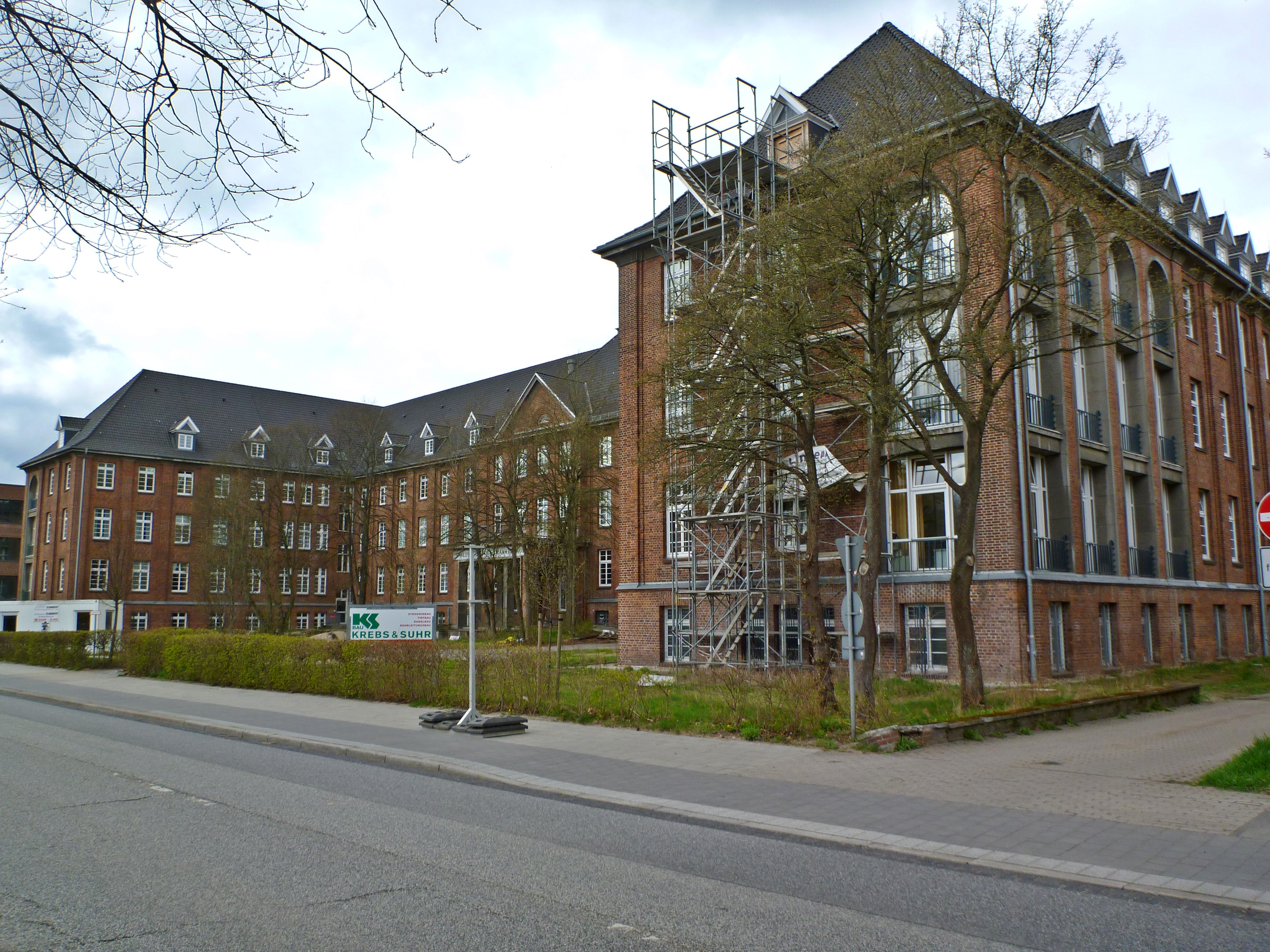 Neumünster, Friesenstraße 11, Hospital, old building, Cultural heritage monuments in Neumünster